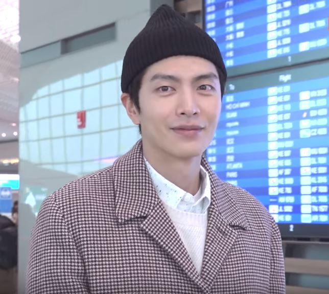 Lee Min-gi at Incheon Airport, 2019, January 4